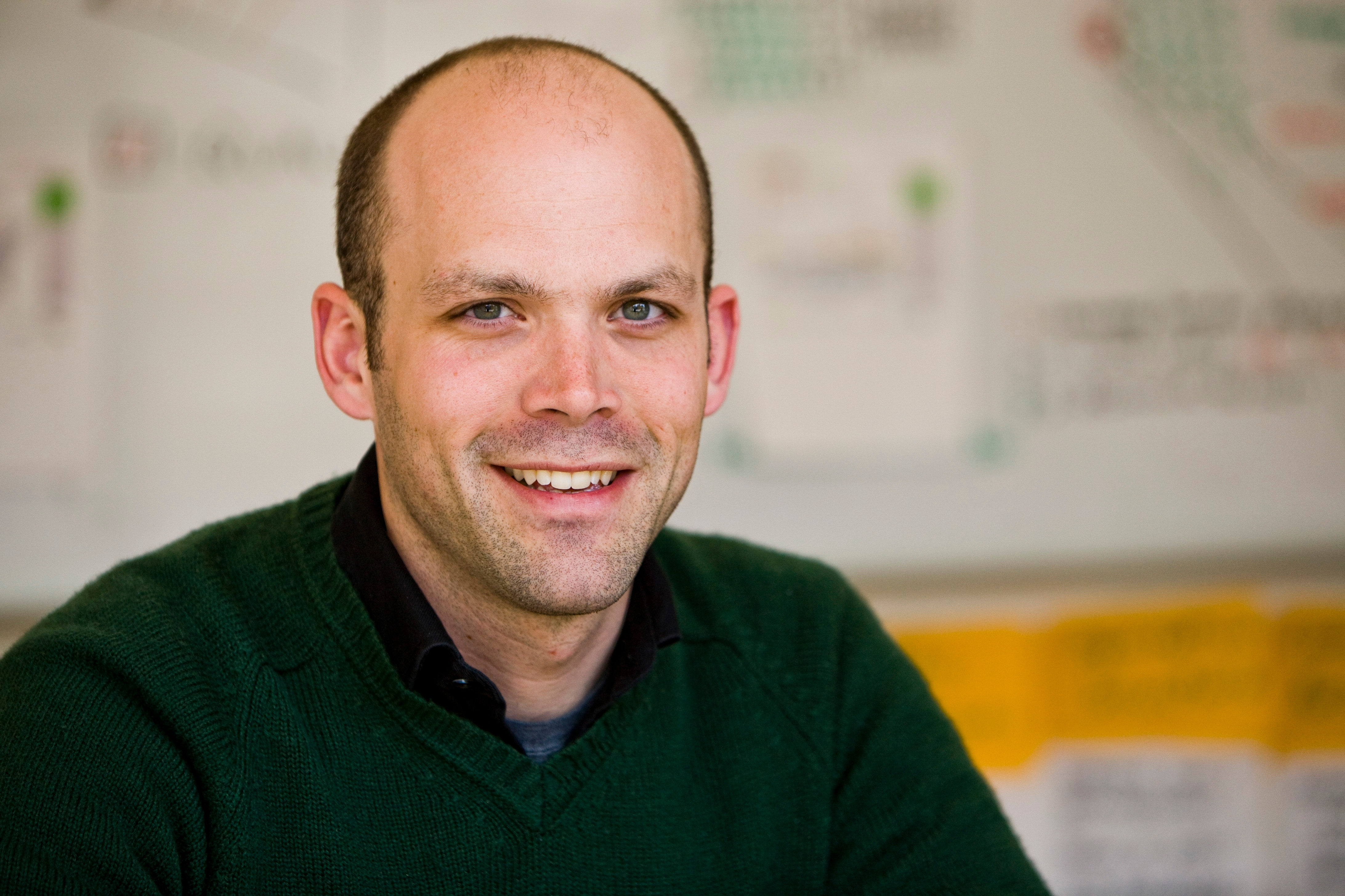 staff portrait of Jay Walsh